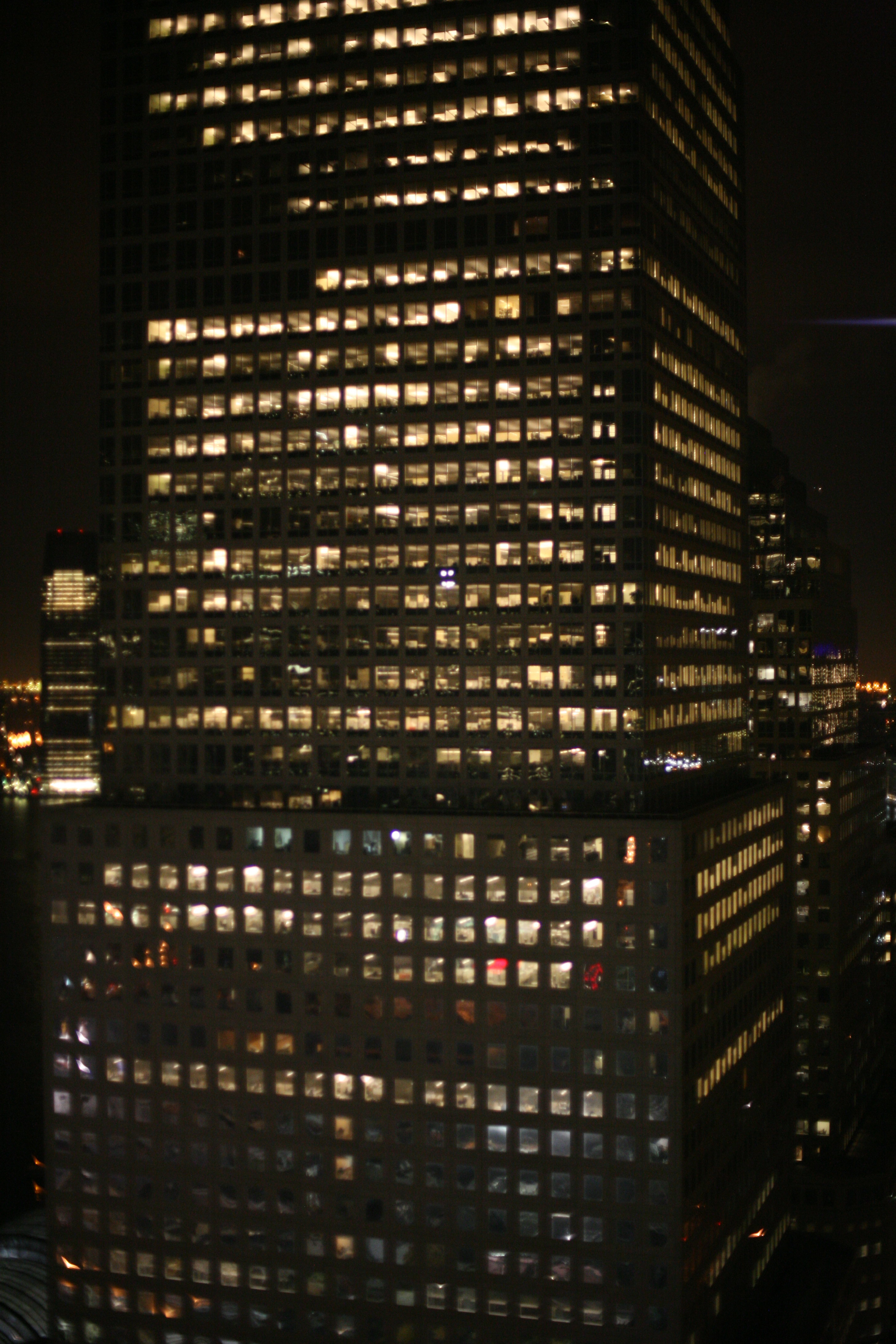 The New York skyscraper at night ...magnificant